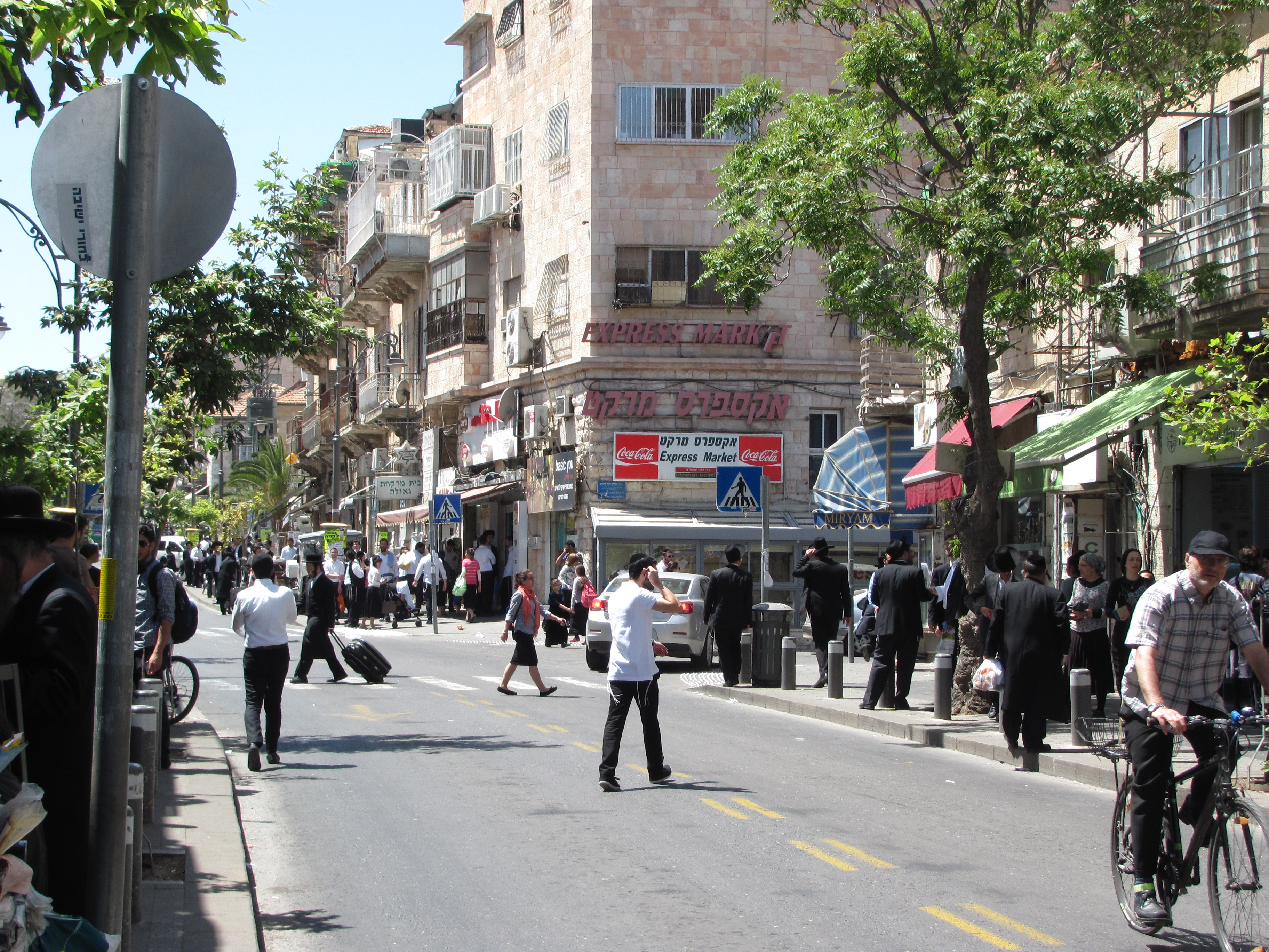 View of Malkhei Yisrael Street in Geula, Jerusalem, on a busy Friday afternoon